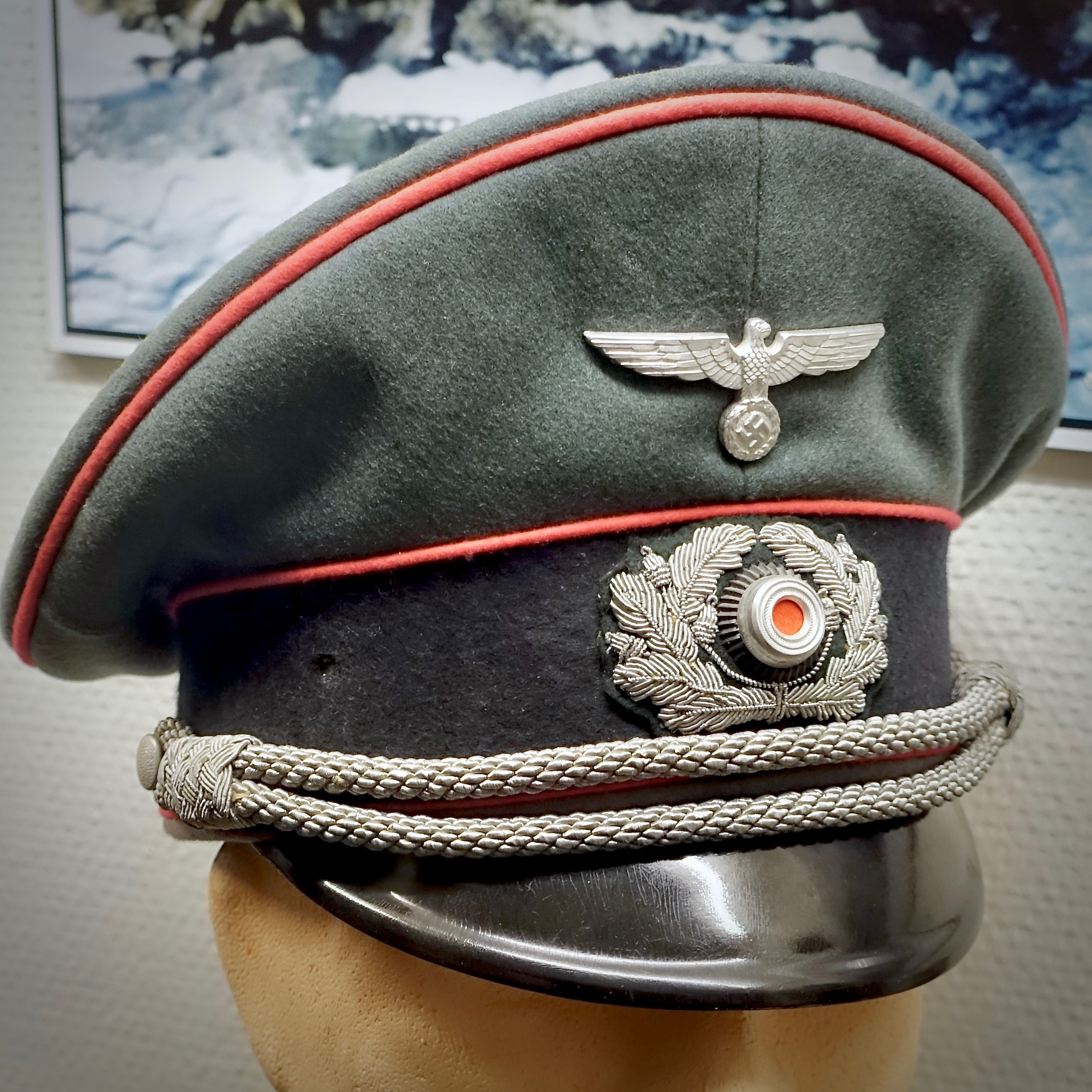 WW2 Wehrmacht Heer Panzer (tank) officer's Schirmmütze (visor peaked cap).Army of Nazi Germany. Pink piping, national cocade, wreath, metal eagle, woven chin cords.Square cropped photo taken on May 8th, 2019 at Lofoten War Memorial Museum ("Lofoten Krigsminnemuseum") in Svolvær, Norway. The museum exhibits uniforms, smaller items, etc. from World War II and the German occupation of Norway 1940–1945.